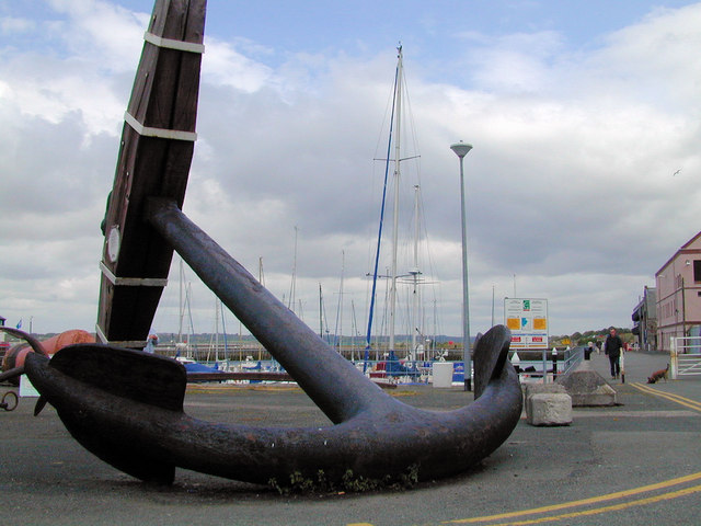 Anchor at Victoria dock, Caernarfon.